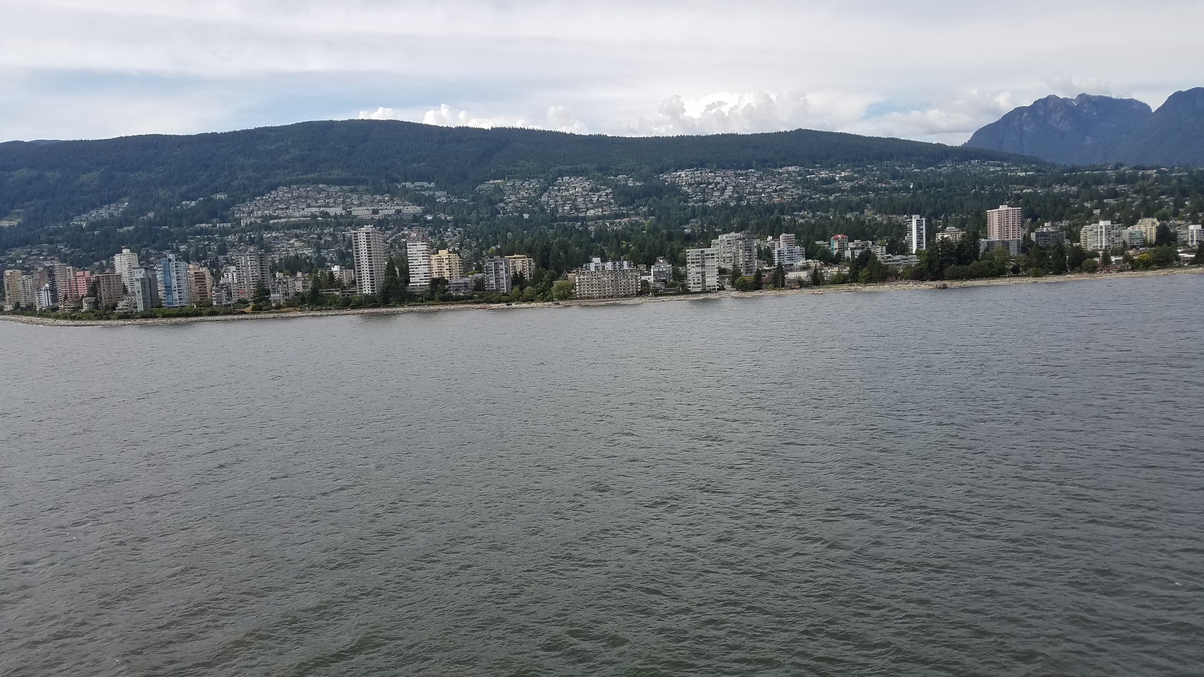 West Vancouver skyline in 2019 as seen from Burrard Inlet